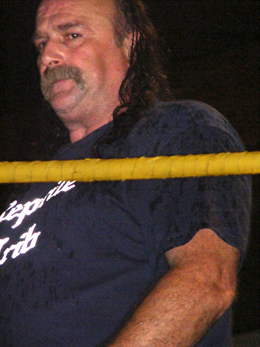 Jake "The Snake" Roberts on September 7, 2008